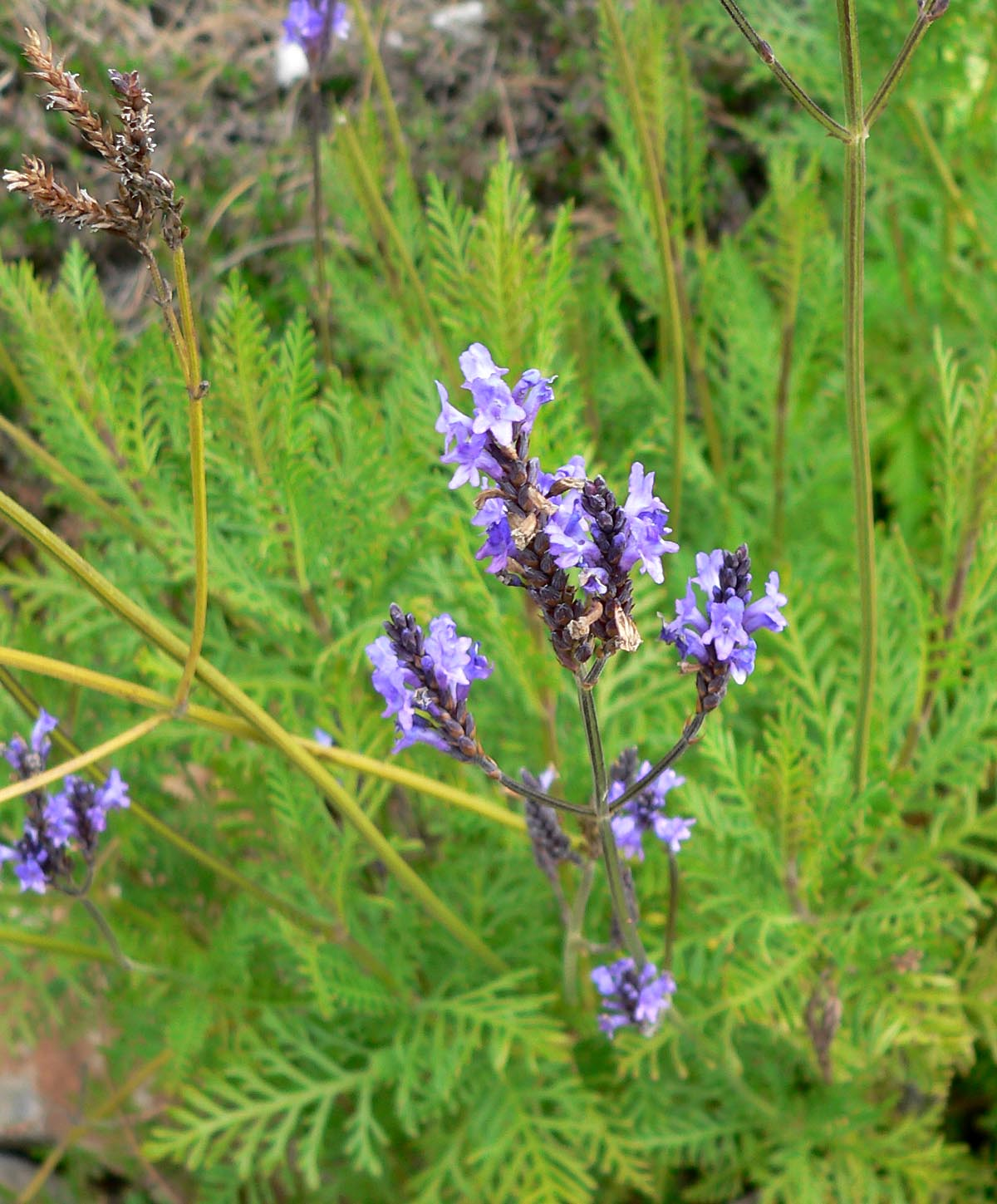 Photo of Lavandula canariensis at the University of California Botanical Garden